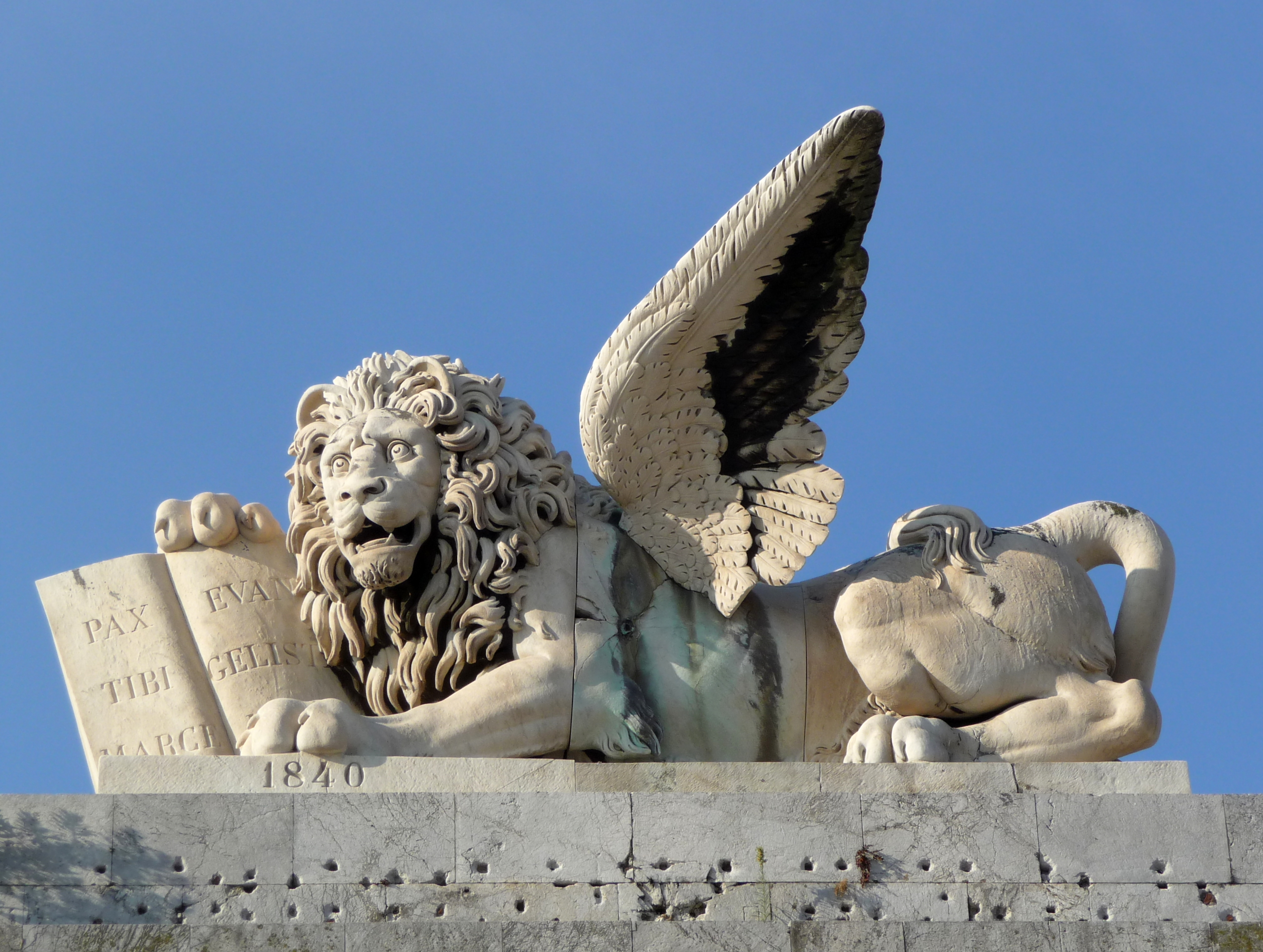 Porta San Marco, Livorno, Italy - detail